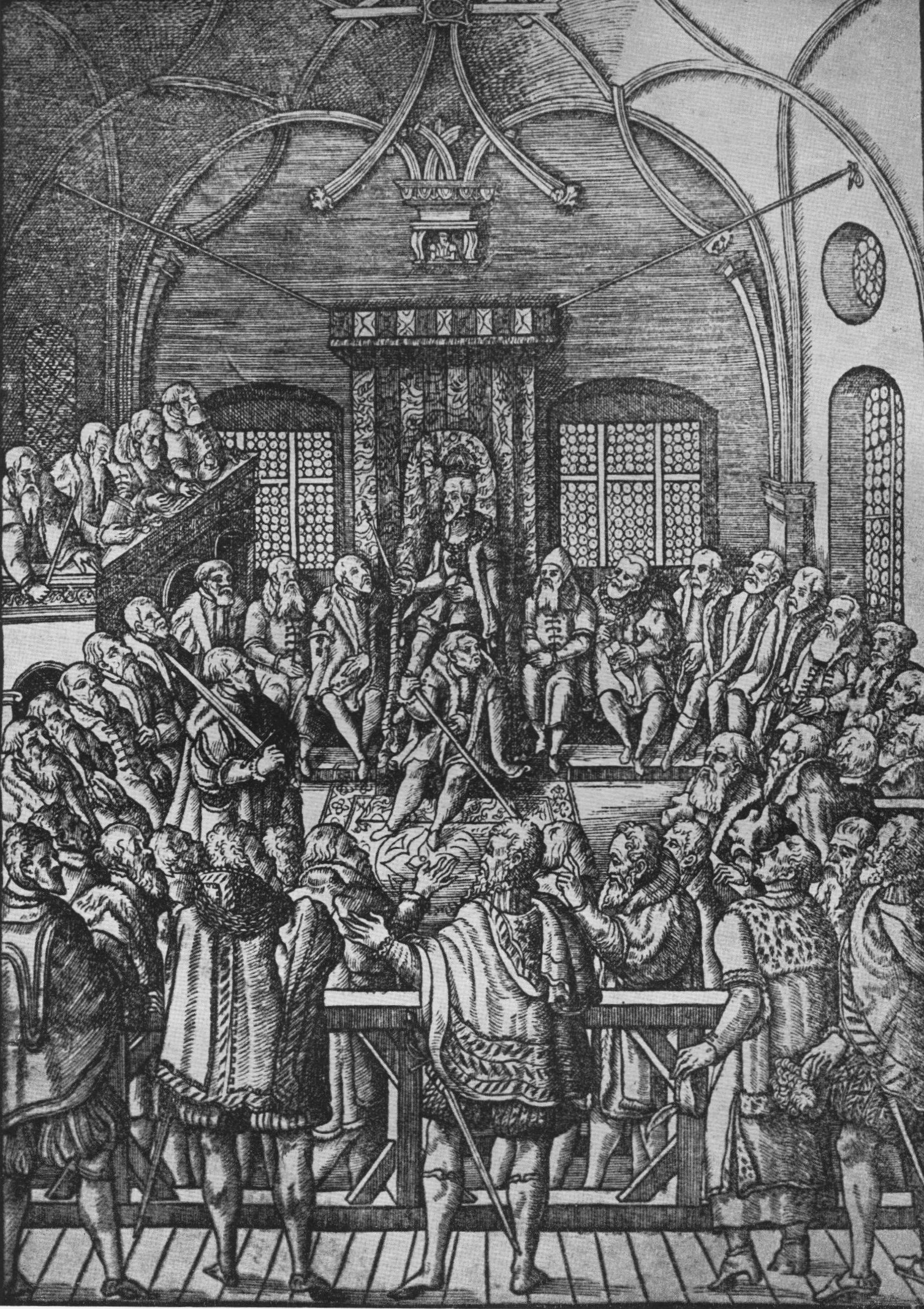 Bohemian Diet in 1564 in Old Royal Palace at Prague Castle. On the throne is siting Emperor Maximilian II.